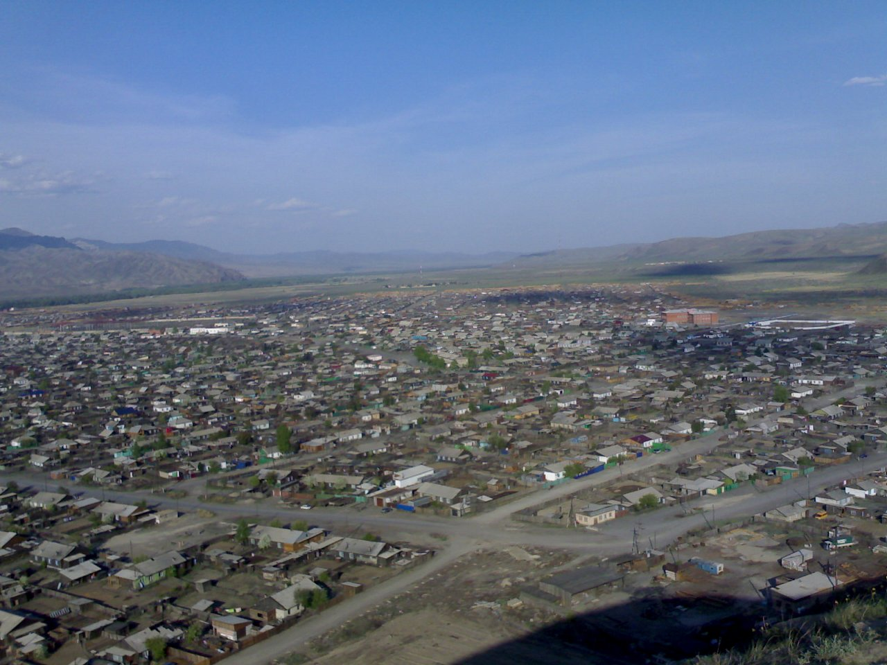 Tyva, Kaa-Hem